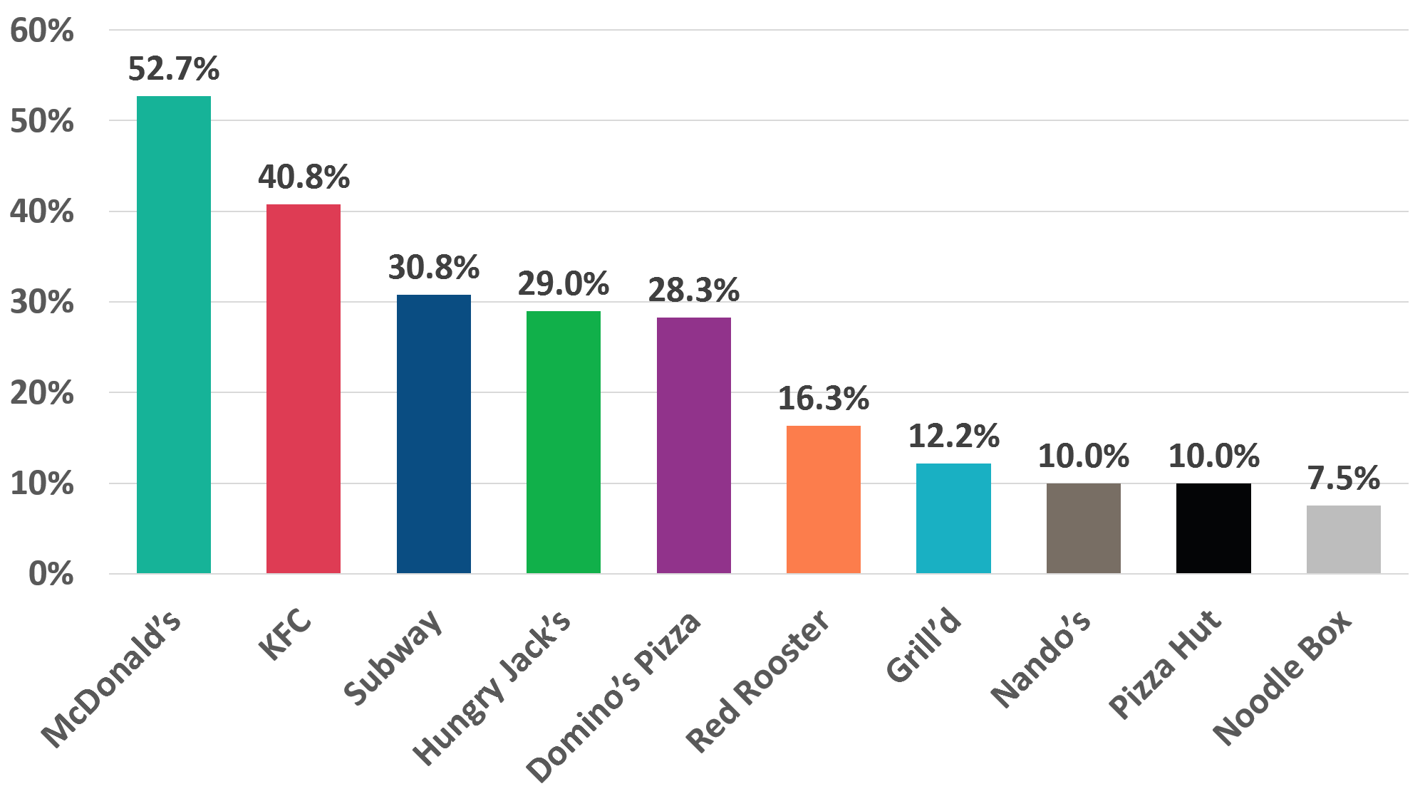 Top 10 Australian Quick Service Restaurants eat at or have take away in an average six months – 12 months to March 2018